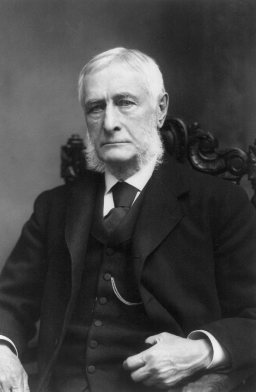 John Edward Parsons, American lawyer, founder of the New York City Bar Association